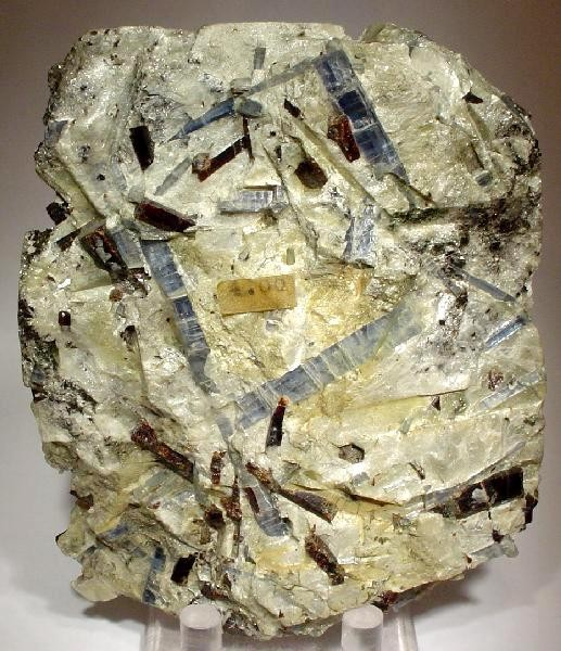 Kyanite, Staurolite, Paragonite Locality: Sponda Alp - Pizzo Forno, Chironico Valley, Leventina, Ticino (Tessin), Switzerland (Locality at ) A striking CABINET specimen of lustrous and gemmy, blue kyanite prisms to 5.5 cm with lustrous, chocolate-brown staurolite crystals to 2.5 cm in a matrix of lustrous, pearlescent paragonite schist from the Type Locality, Monte Campione, Faido, Ticino, Switzerland. Paragonite is an uncommon mica group mineral and this is a really good one. Ex Richard Hauck Collection. 10.5 x 8.8 x 2.4 cm